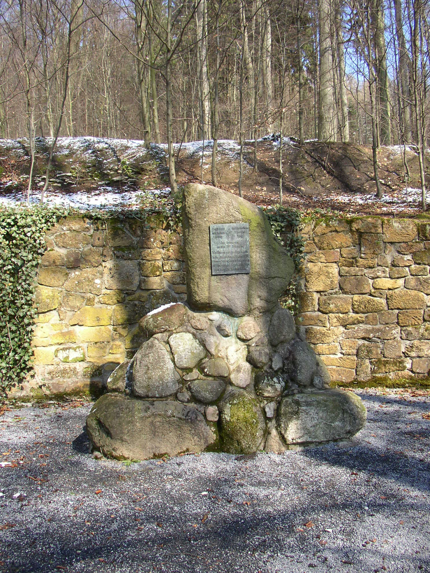 Walther von der Vogelweide Memorial in the Knüll/Storkenberg Nature Reserve in Halle, Westfalia